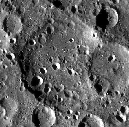 Fowler lunar crater - LRO WAC image